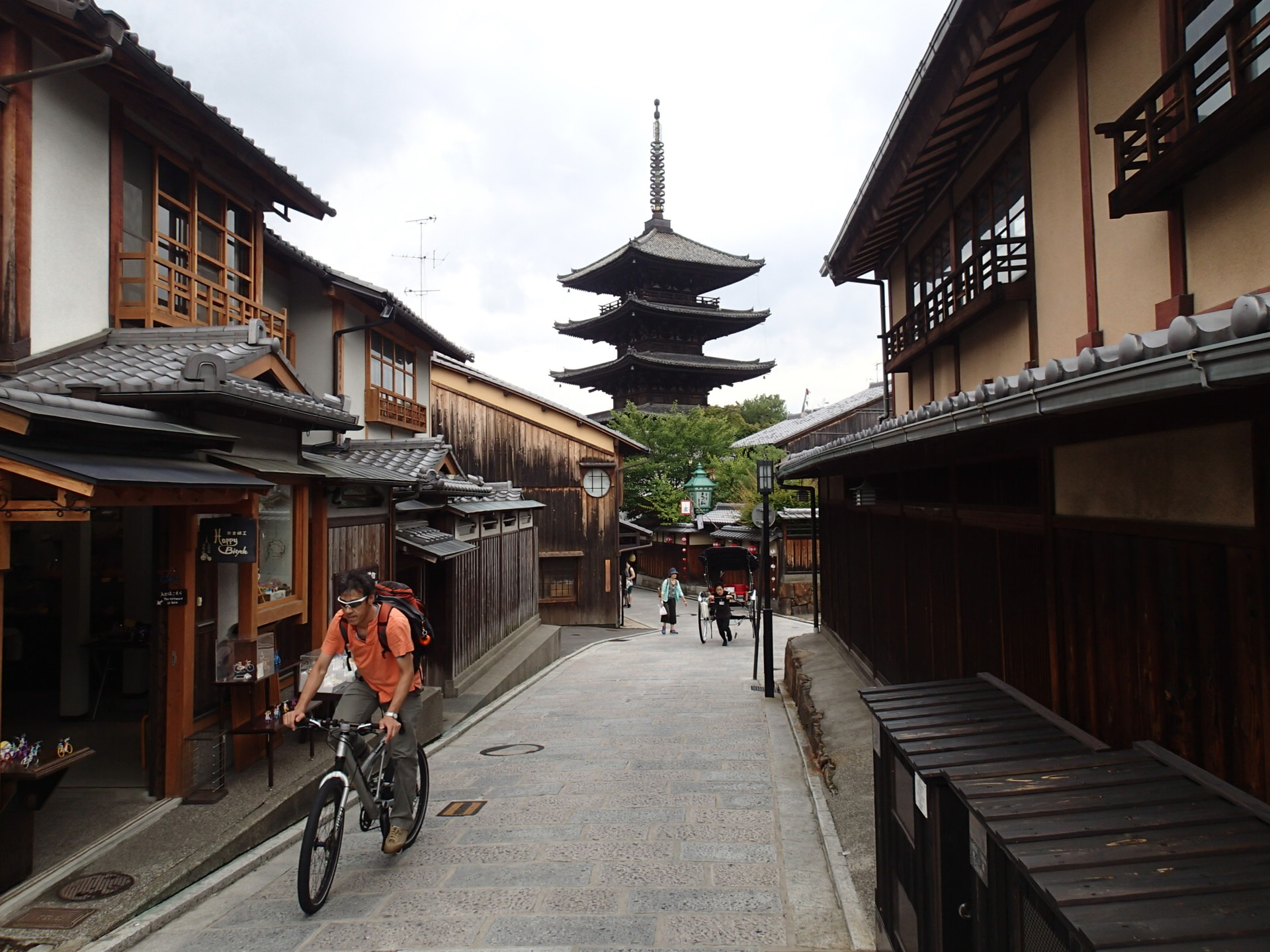 Kyoto old city